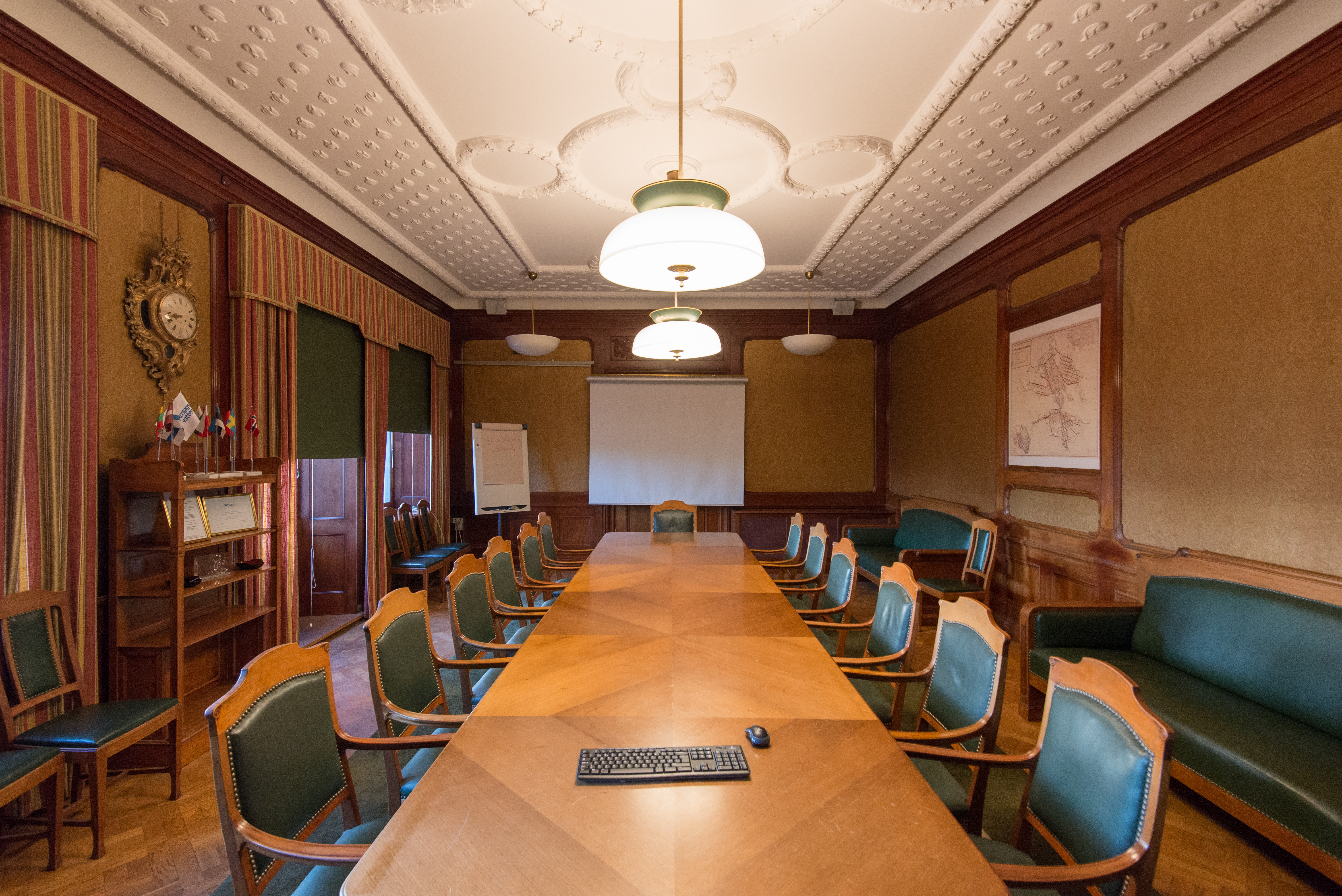 Sabbatsberg 24 in Stockholm is a historic office property consisting of two buildings. Built 1903-06 as the headquarters for Stockholm's municipal water and gas companies. Architects Ferdinand Boberg and Gustaf de Frumerie. Boardroom, build for Stockholm Gas Company but today used by the Stockholm Water Company.